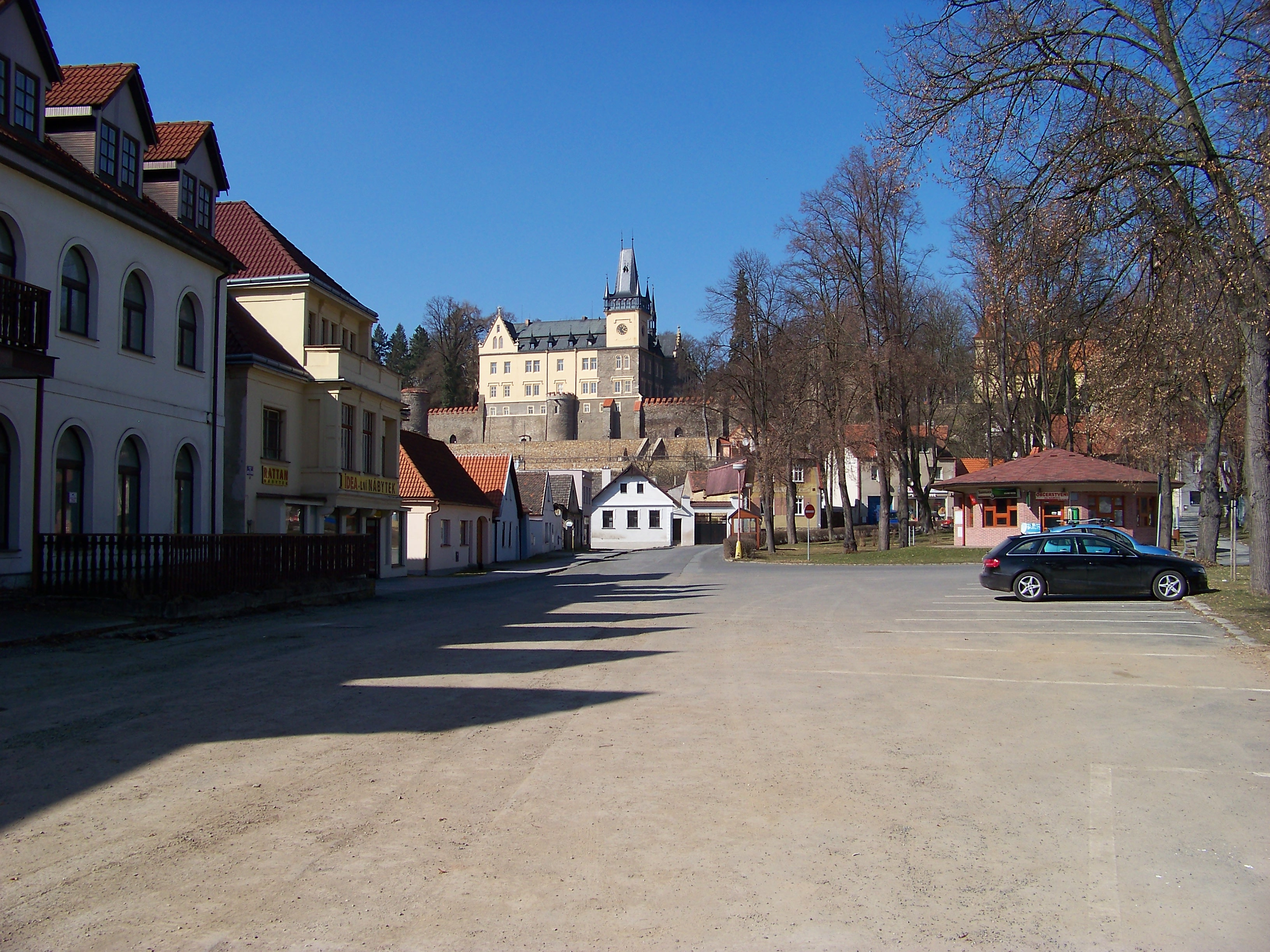 Zruč nad Sázavou, Kutná Hora District, Central Bohemian Region, the Czech Republic. MUDR. J. Svoboda Square, a view of the castle.